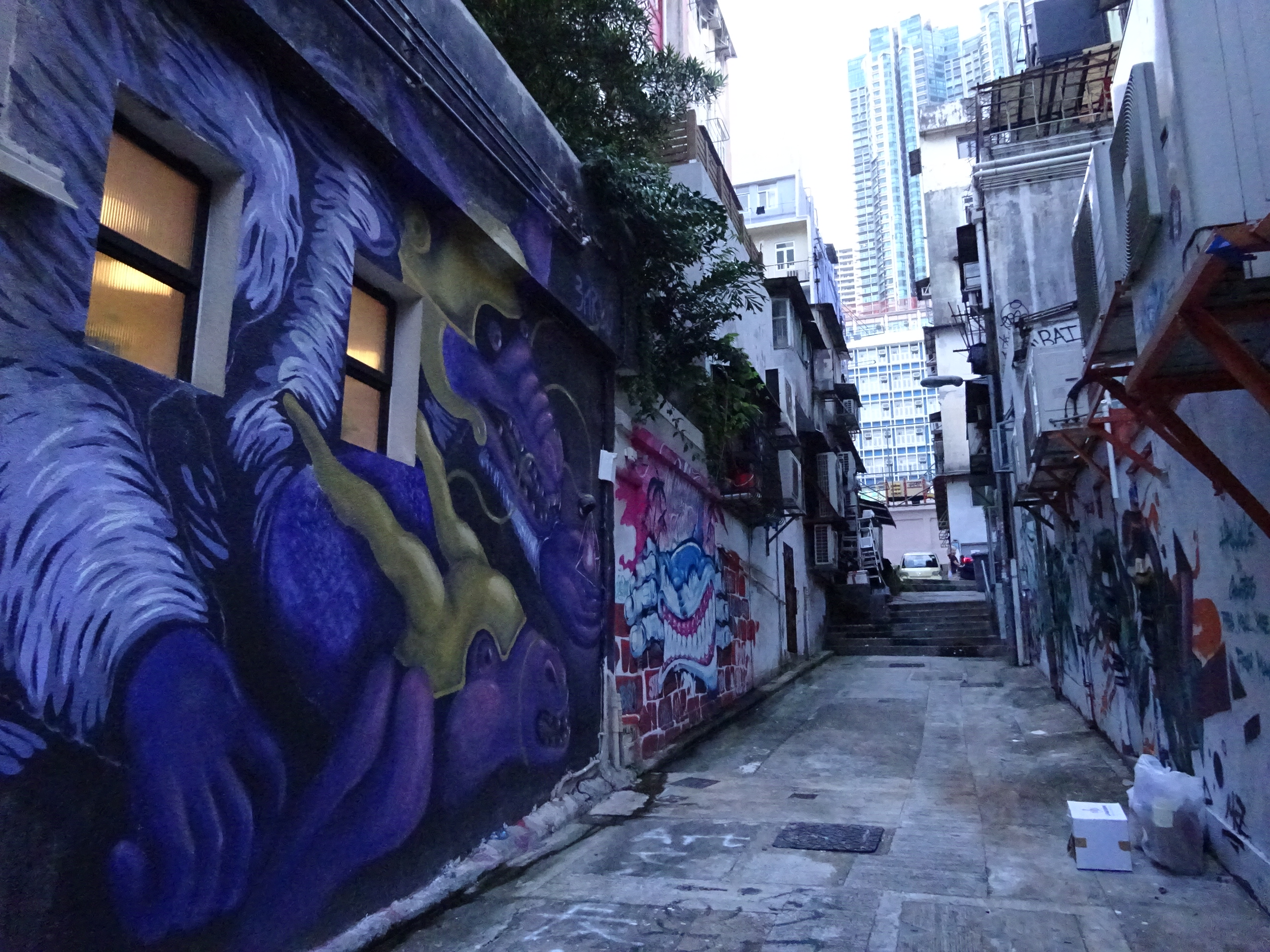 上環 太平山街 Tai Ping Shan Street, Upper Station Street, Sheung Wan, Hong Kong